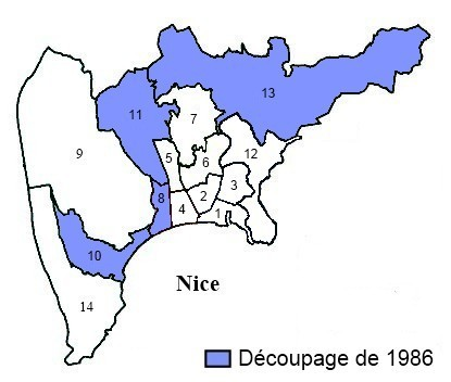 Map of Alpes Maritimes' 3rd constituency (France) under the 1986 redistricting.